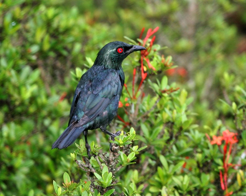 Asian Glossy Starling Aplonis panayensis strigata, taken in Tambatan, Johor Baharu, Malaysia, with a Canon EOS 20D.